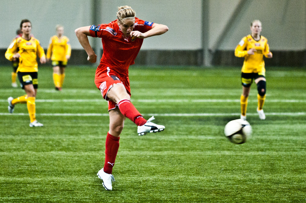 Elise Thorsnes shooting at the LSK goal in LSK-Hallen in the last game of the season in 2010